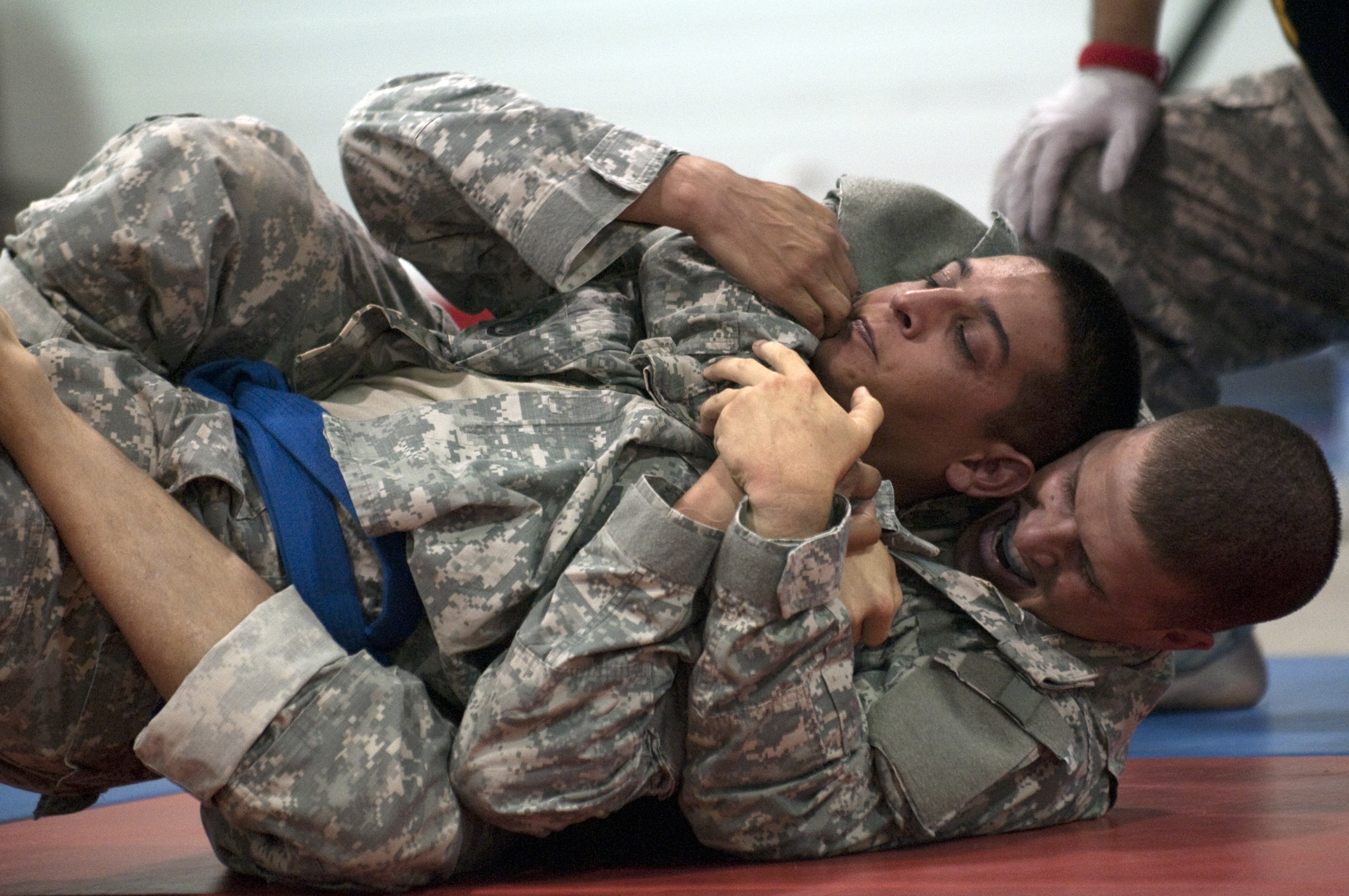 U.S. Army Staff Sgt. Israel Guerrero, blue belt, competes against Staff Sgt. Joshua Allen during the Modern Army Combatives tournament of the 2013 Army Reserve Best Warrior Competition at Fort McCoy, Wis., June 27, 2013.